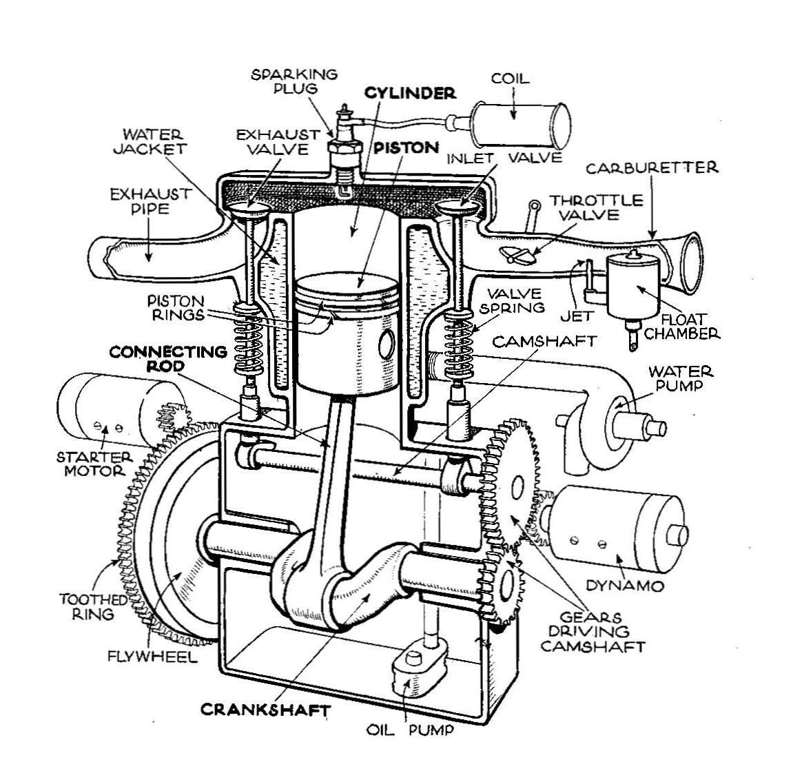 Single-cylinder T-head engine (Autocar Handbook, 13th ed, 1935).jpg